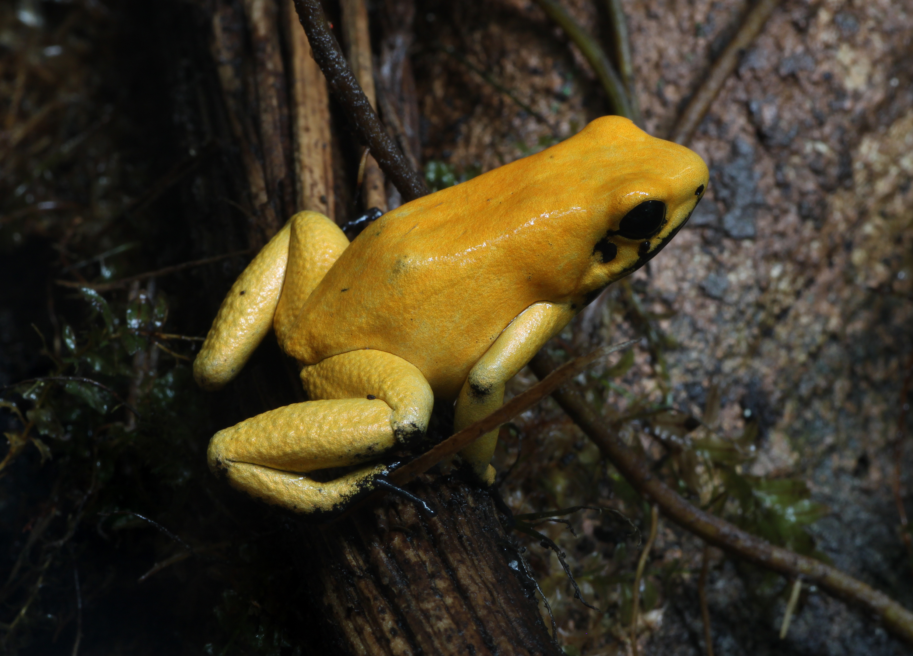 Golden Poison Frog or Golden Dart Frog, Phyllobates terribilis, Family: Dendrobatidae, Location: Germany, Stuttgart, Zoological Garden